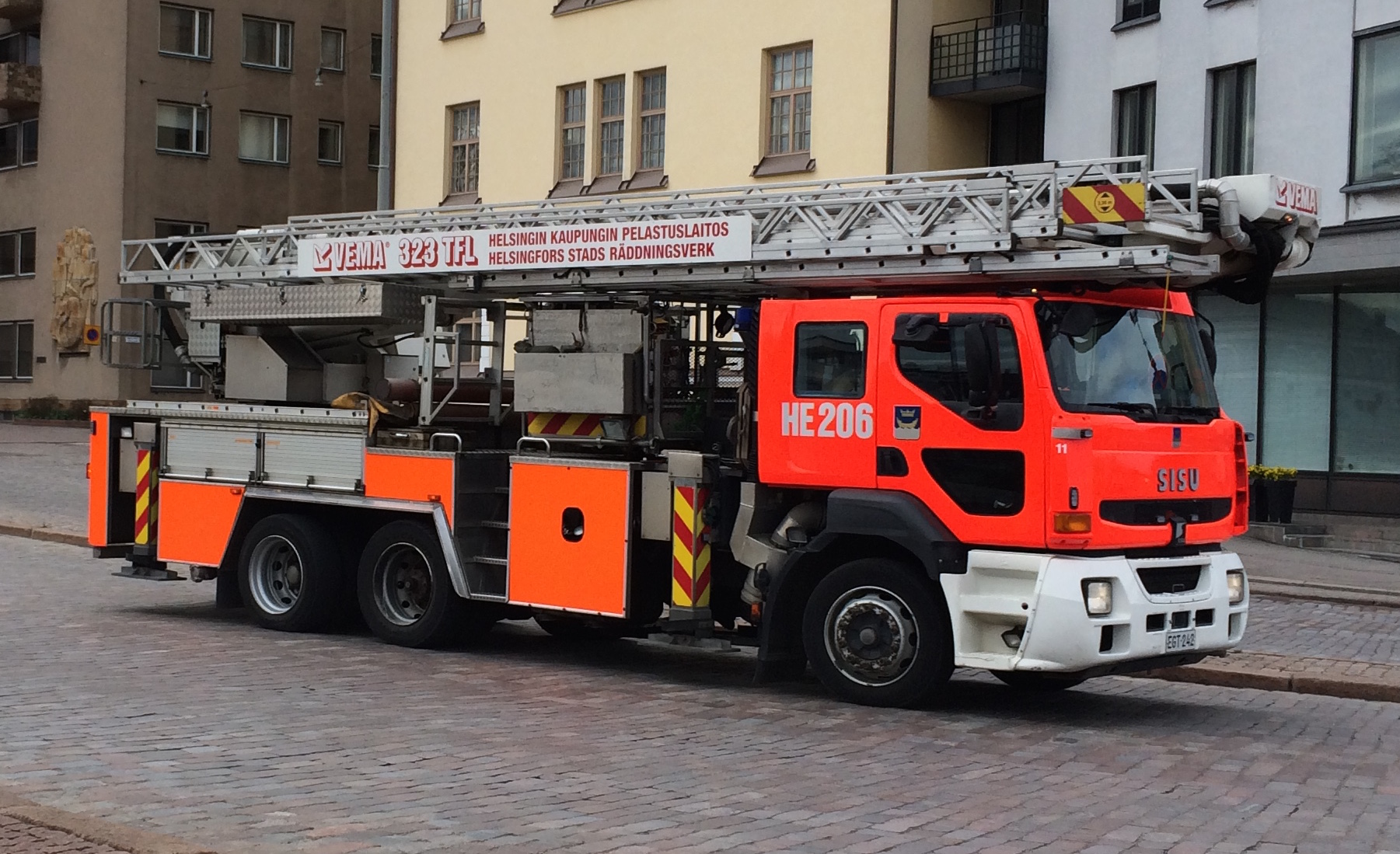 Helsinki City Fire Brigade, fire engine HE206 (new numbering system) in Helsinki, Finland.